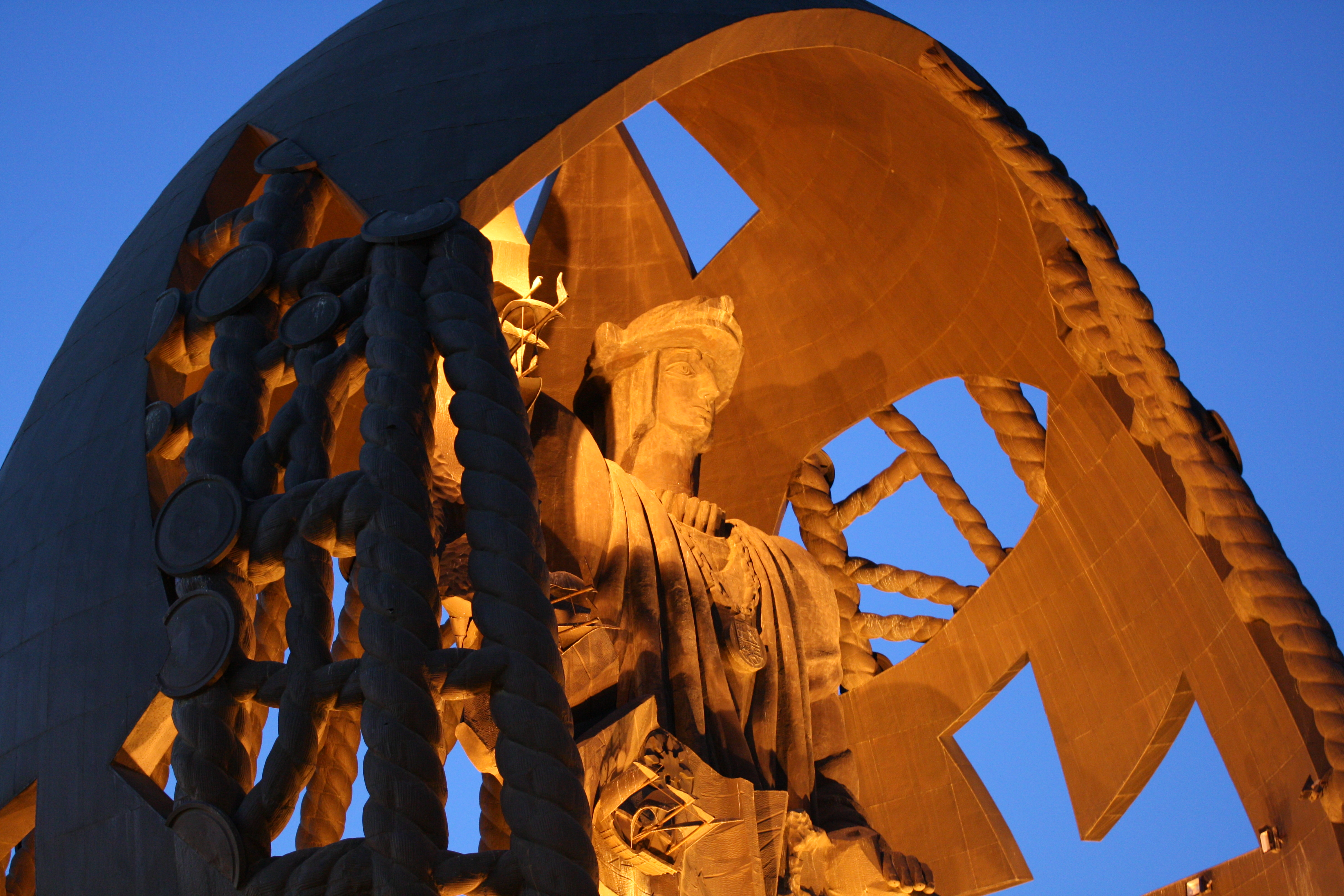 Statue of Christopher Columbus in Sevilla